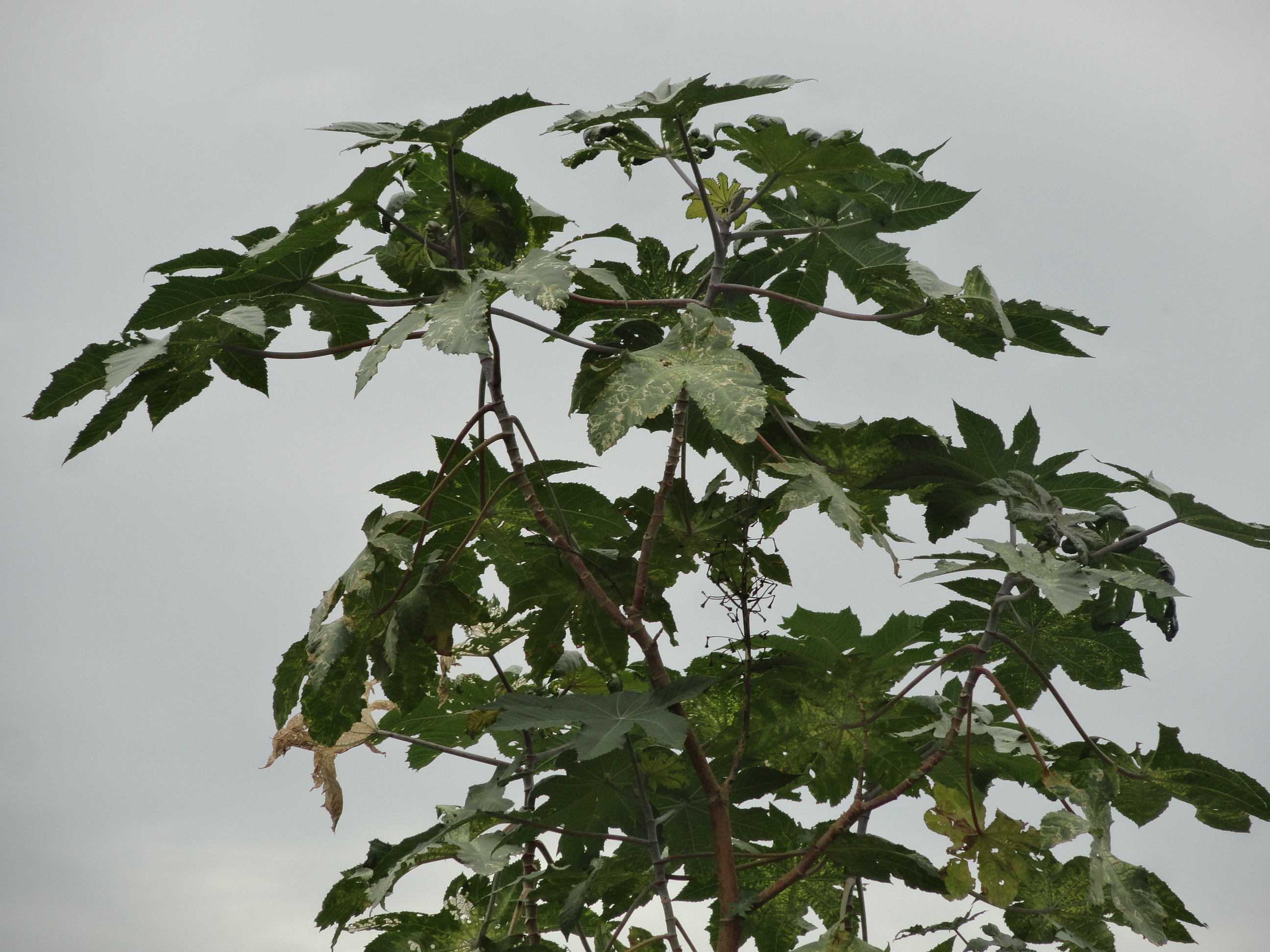 ఆముదము చెట్టు